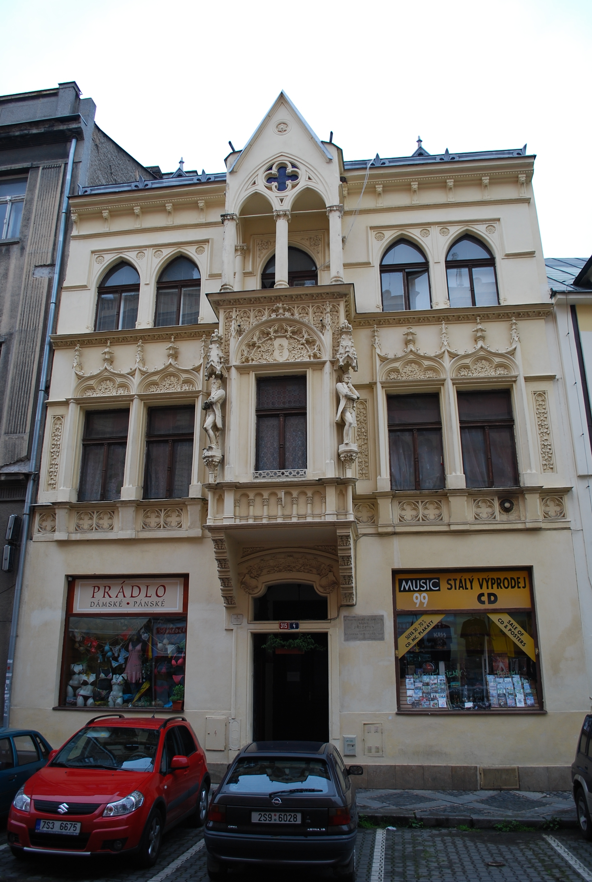 Place of birth Jiri Orten